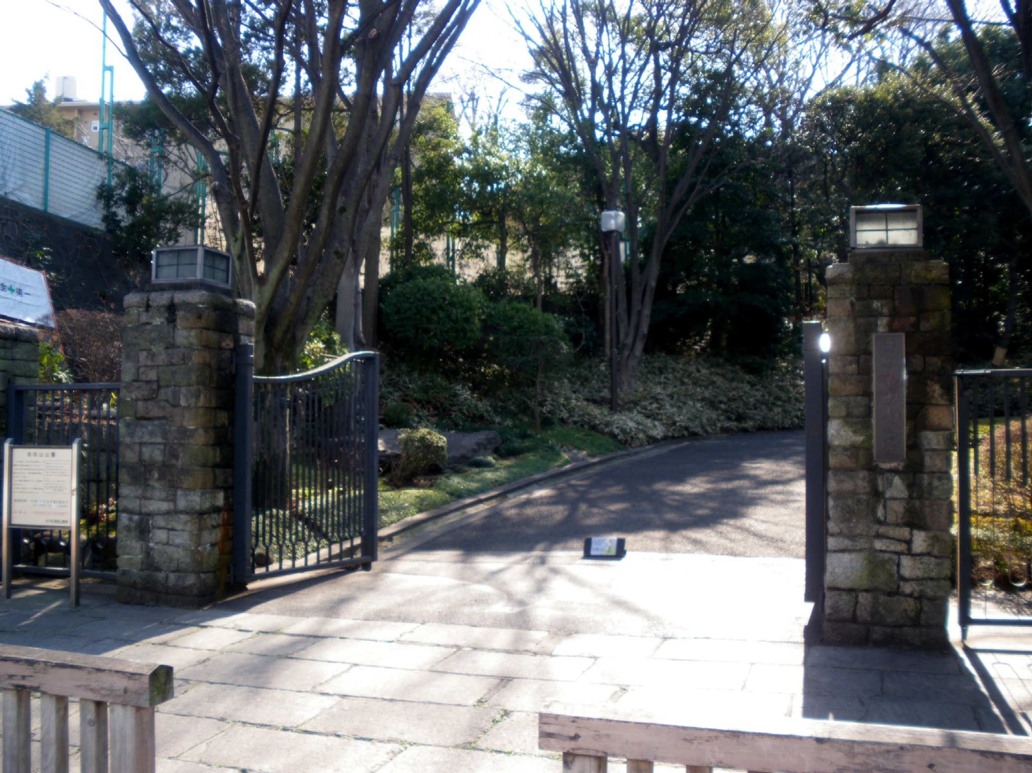 Ikedayama Park(Higashigotanda,Shinagawa,Tokyo)